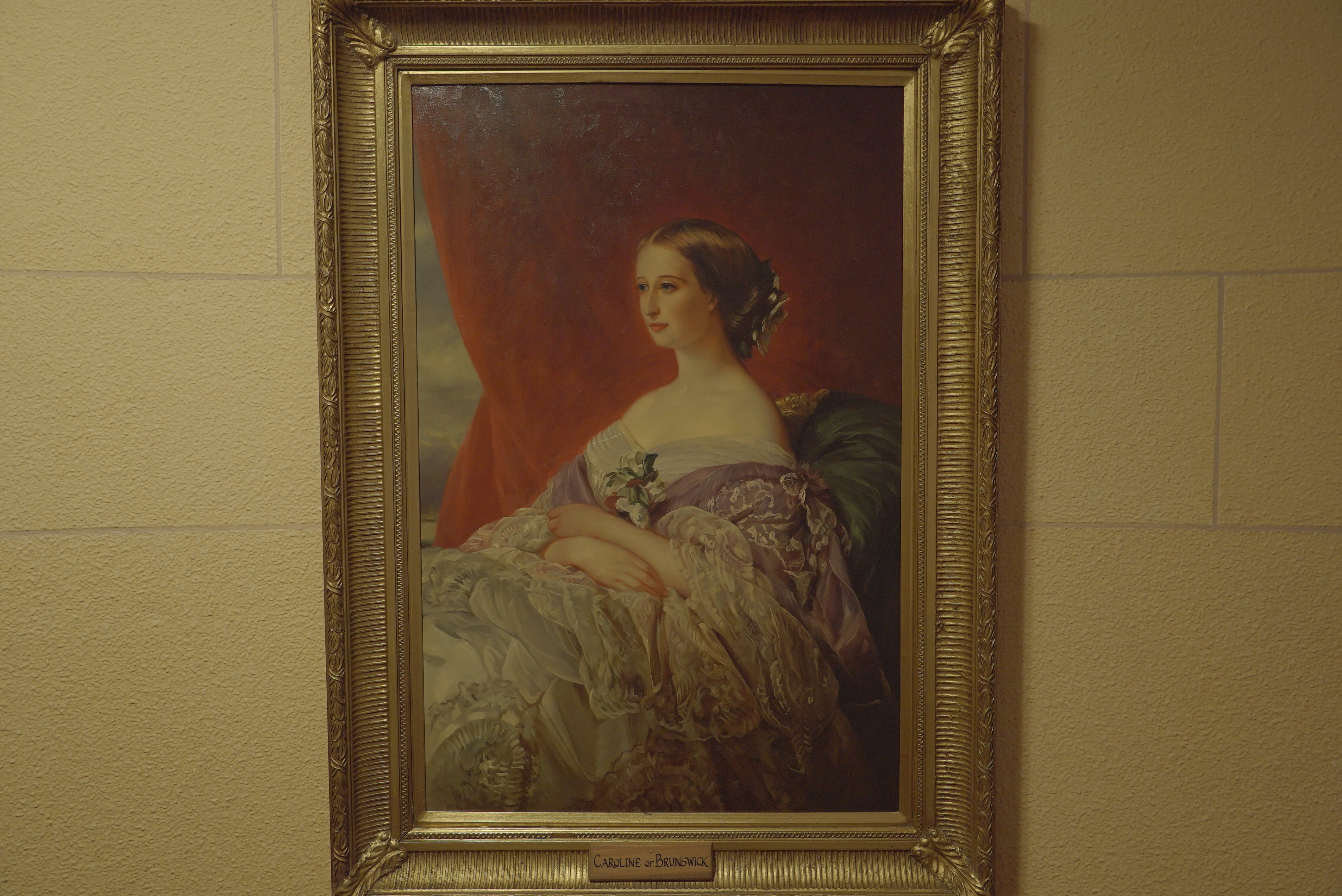 A portrait of Eugénie de Montijo owned by the hotel above the National Liberal Club